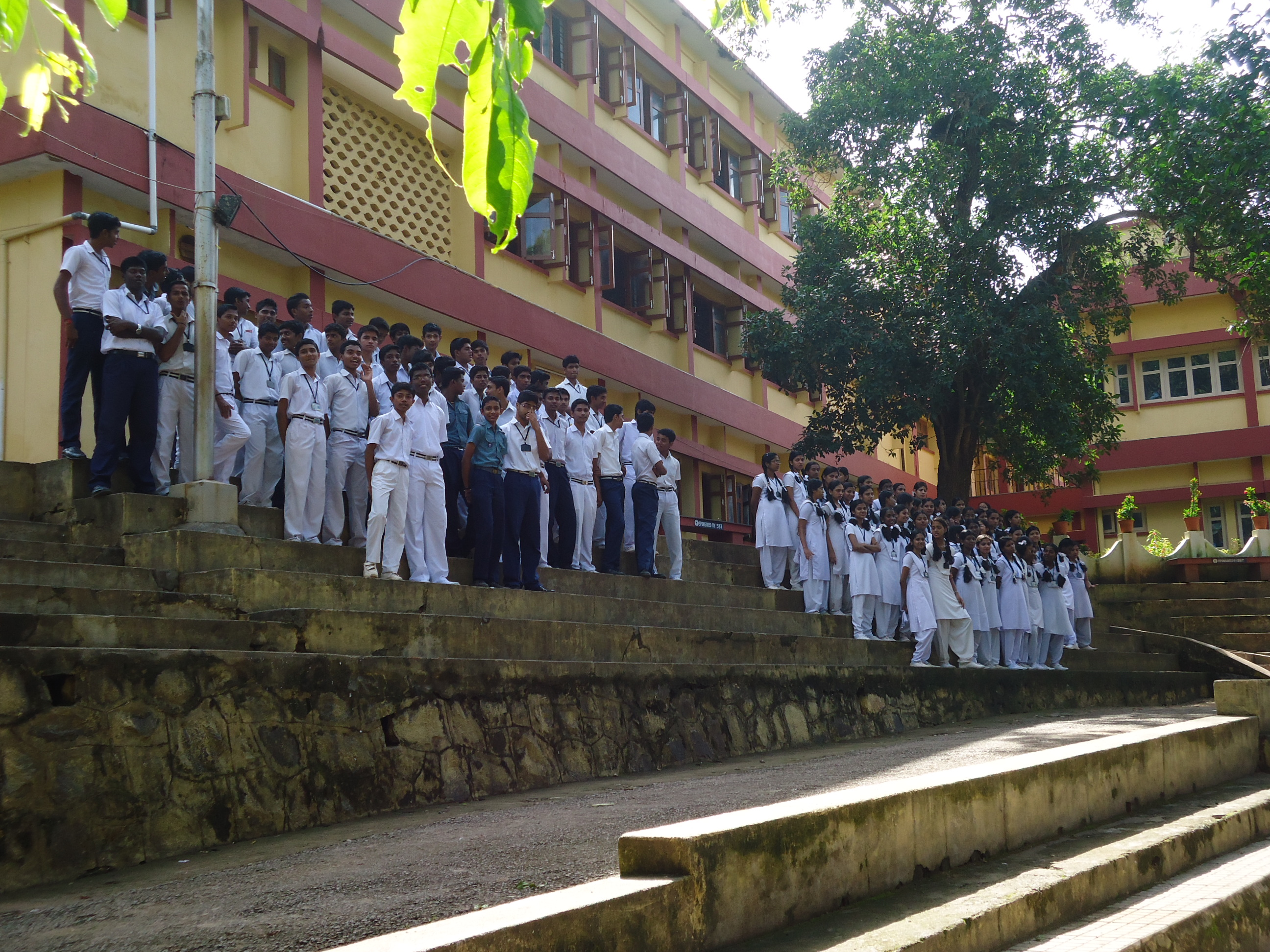 the morning assembly of kv pangode